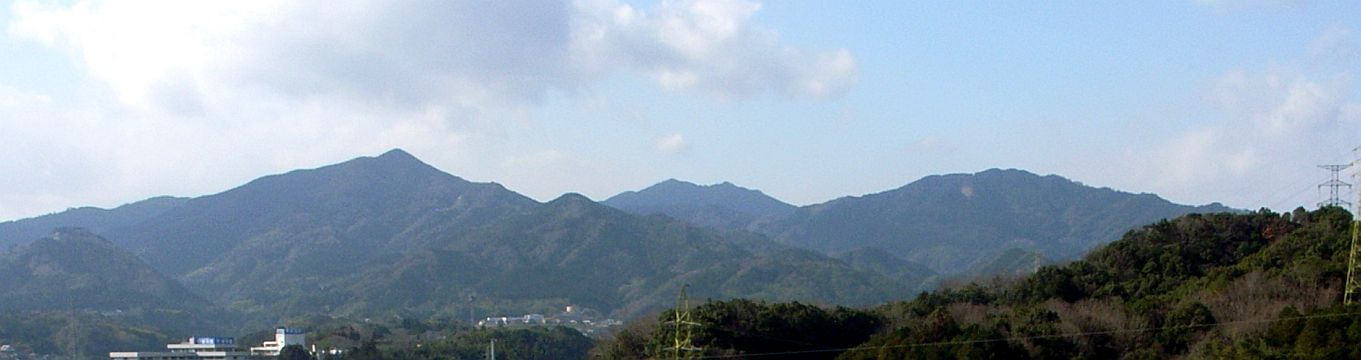 Mt. Hongu-san (left) and Mt. Ryozen (right), Oita City, Oita Pref., Japan / 本宮山と霊山（大分県大分市）